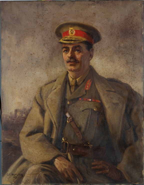 A portrait by George Edmund Butler of Brigadier General Charles Melvill of the NZEF, painted in 1919